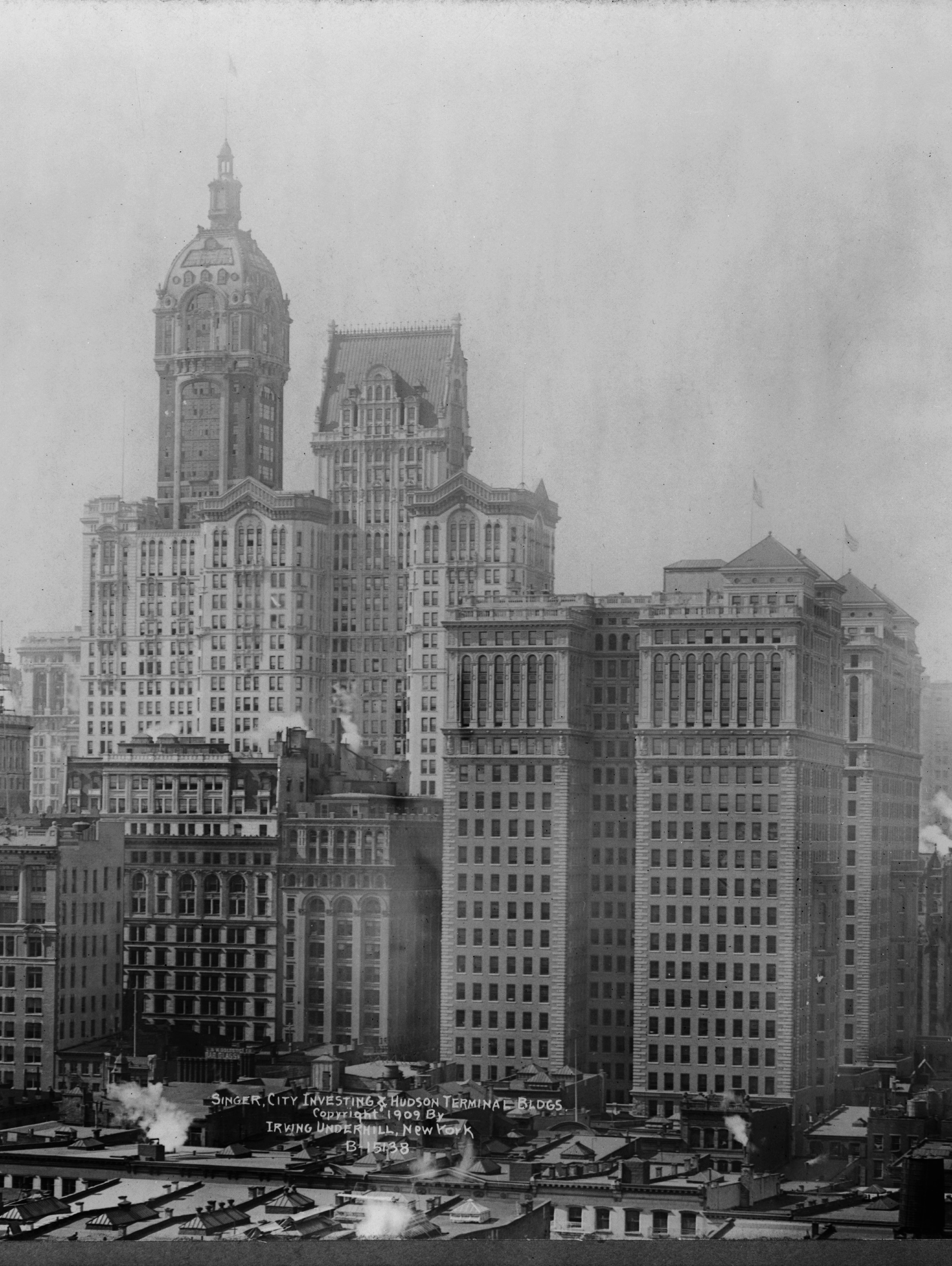 Singer, City Investing & Hudson Terminal Buildings, New York City (1909).